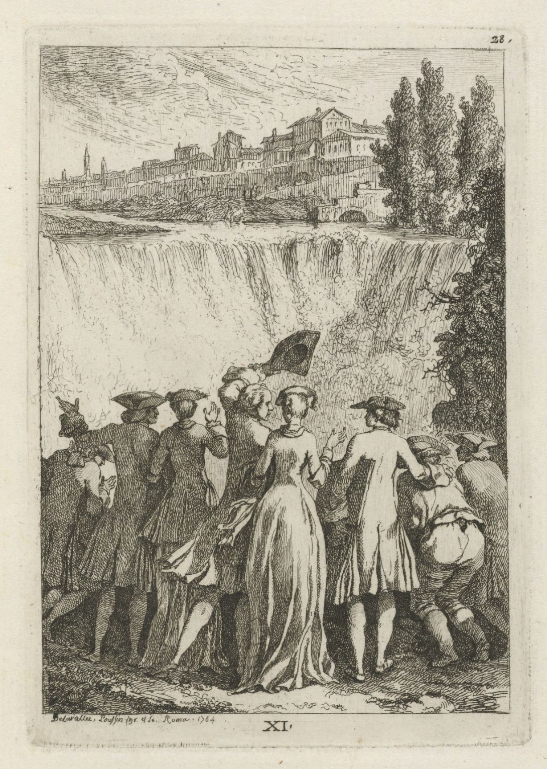 Page from Nella venuta in Roma di madama Le Comte e dei Signori Watelet, e Copette rinomatissimi letterati francesi, Rome: 1764, by Luigi Subleyras (1743-1814). Typ 725.64.812, Houghton Library, Harvard University